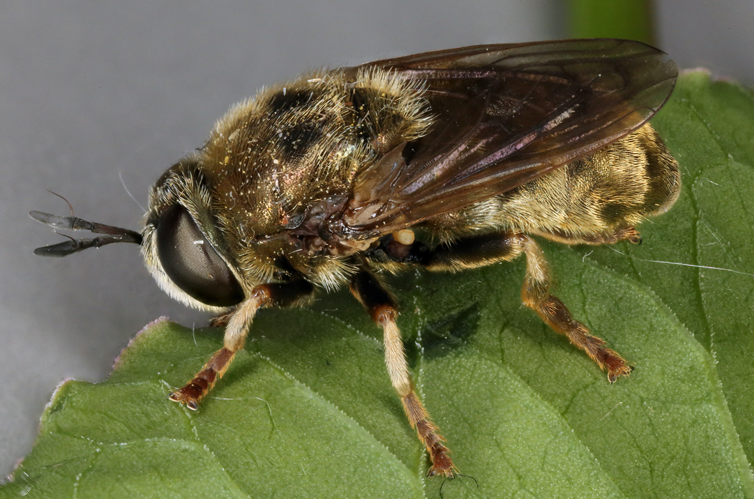 Microdon devius, North Wales, June 2016